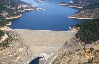 Trinty Dam (California)